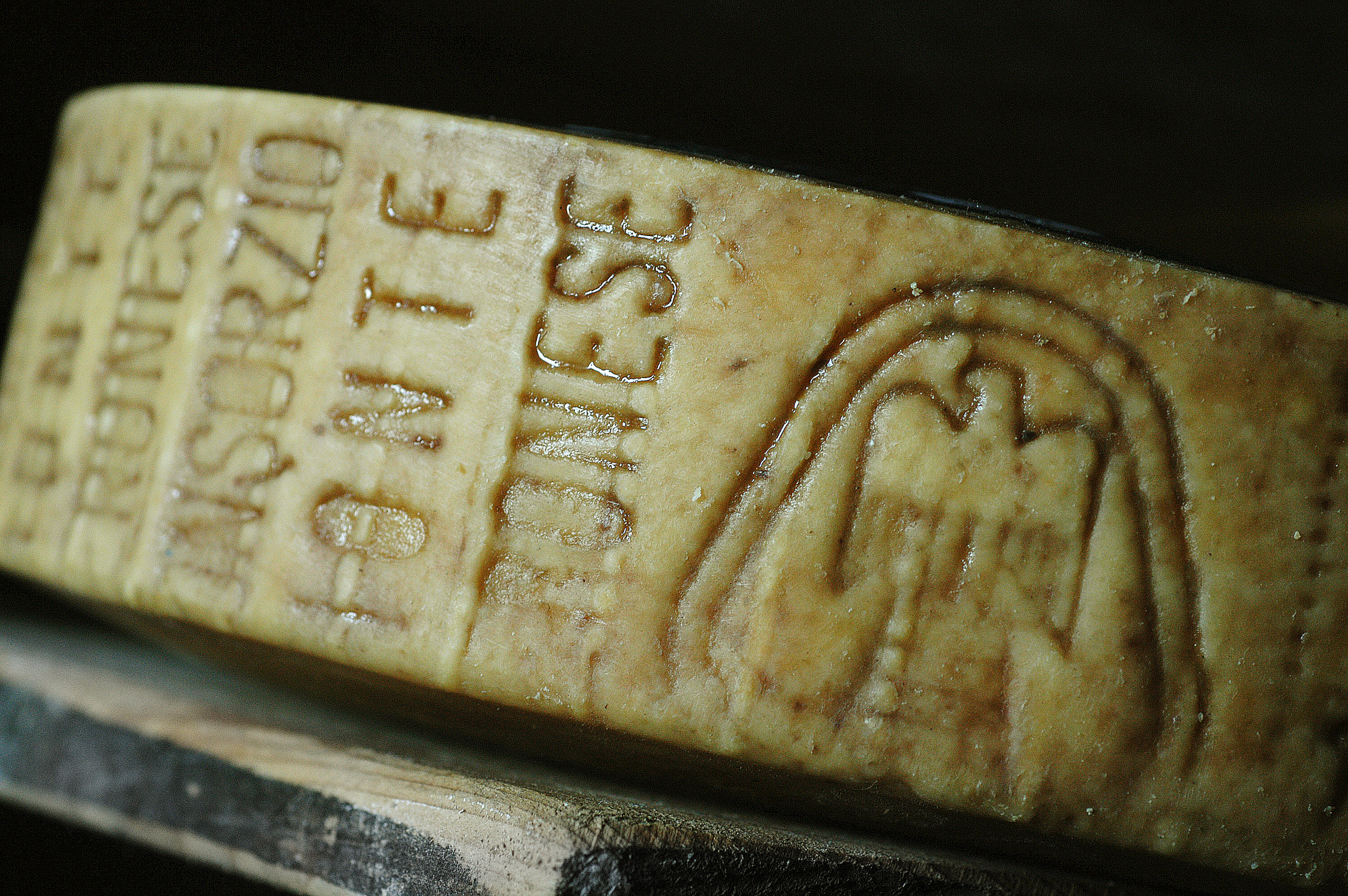 Monte Veronese (PDO) – Italy.